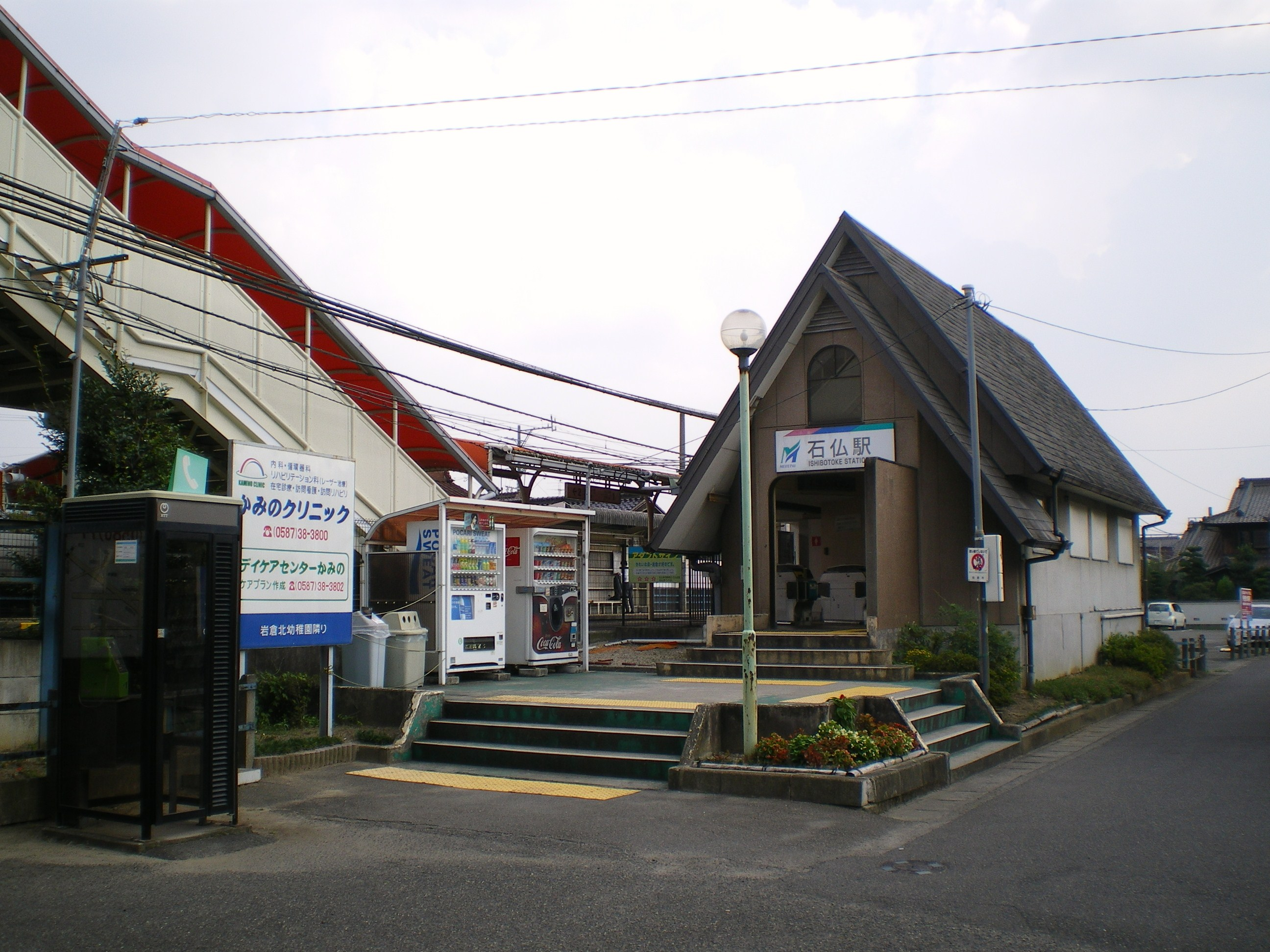 Nagoya Railroad Inuyama Line Ishibotoke Station Building